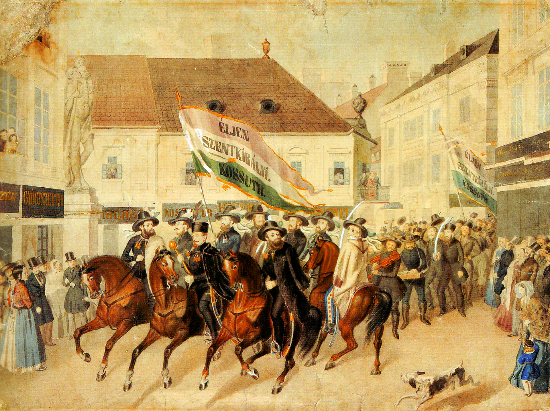 Election parade at Kristóf Square, Pest, 1848 aquarell by Miklós Barabás